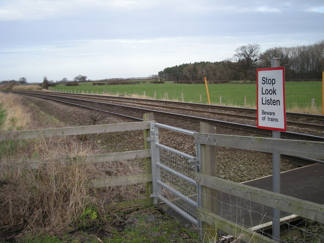 Stop, look & listen - Beware of the trains.